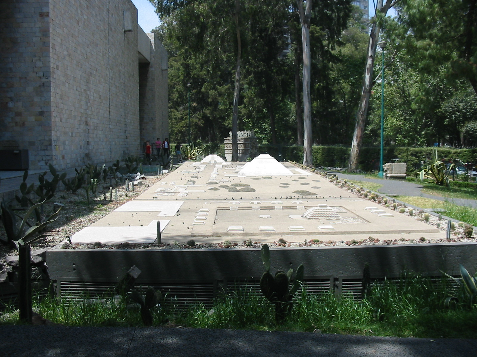 Model of Teotihuacan in the National Museum of Anthropology in Mexico City